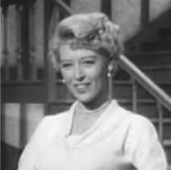 Cropped screenshot of Barbara Ruick from the trailer for the film The Affairs of Dobie Gillis.